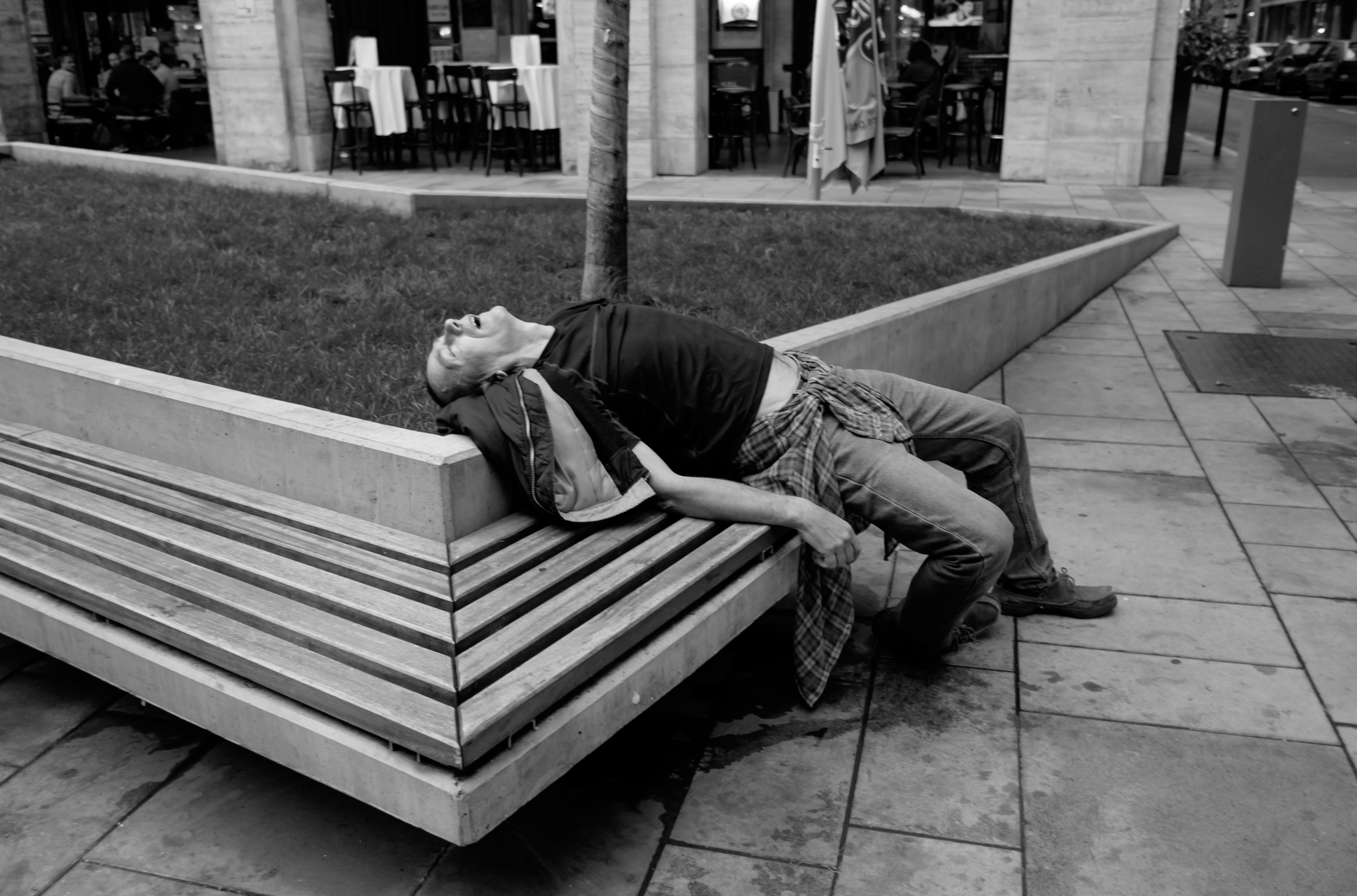 Morning views in central Budapest sadly involves sights like this quite often, and nearby hungarians were quite ashamed as I approached to take pictures, even asked me to stop shooting. I can't remember having seen as many people scattered around town in such helpless conditions and desperately in need of help and care for a decent life in any other city I've been in.